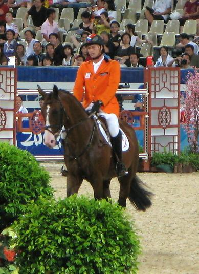 Marc Houtzager with Opium, 2008 Olympic Games equestrian in Sha Tin, Hongkong